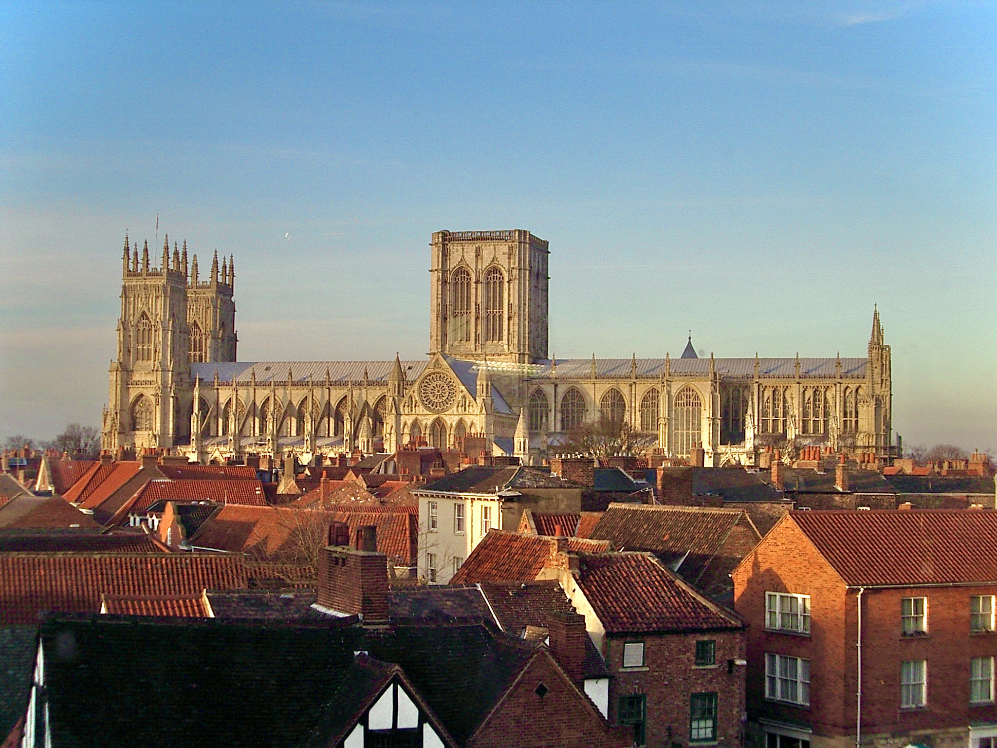 View of York Minster from 2nd floor of Marks & Spencer building